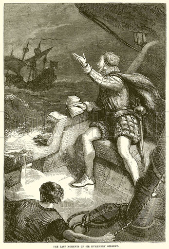 The last moments of Sir Humphrey Gilbert. Illustration from Cassell's History of the United States by Edward Ollier (c 1900).